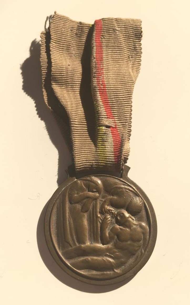 Medal for mothers of fallen soldiers